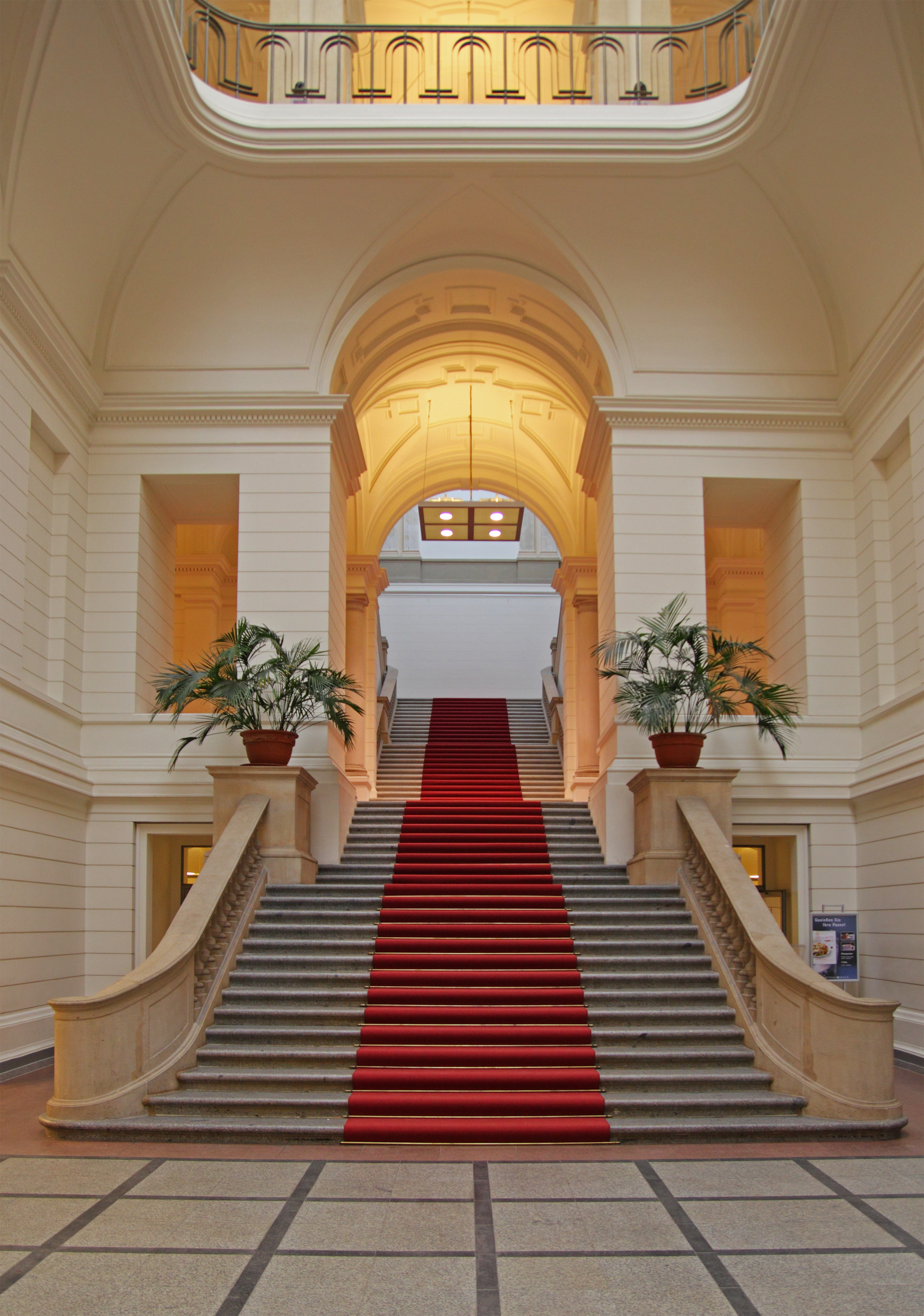 Prussian Landtag, Niederkirchnerstr. 5, Berlin, Germany. Today this building is the residence of the parliament of the State of Berlin. Interiors of the building.